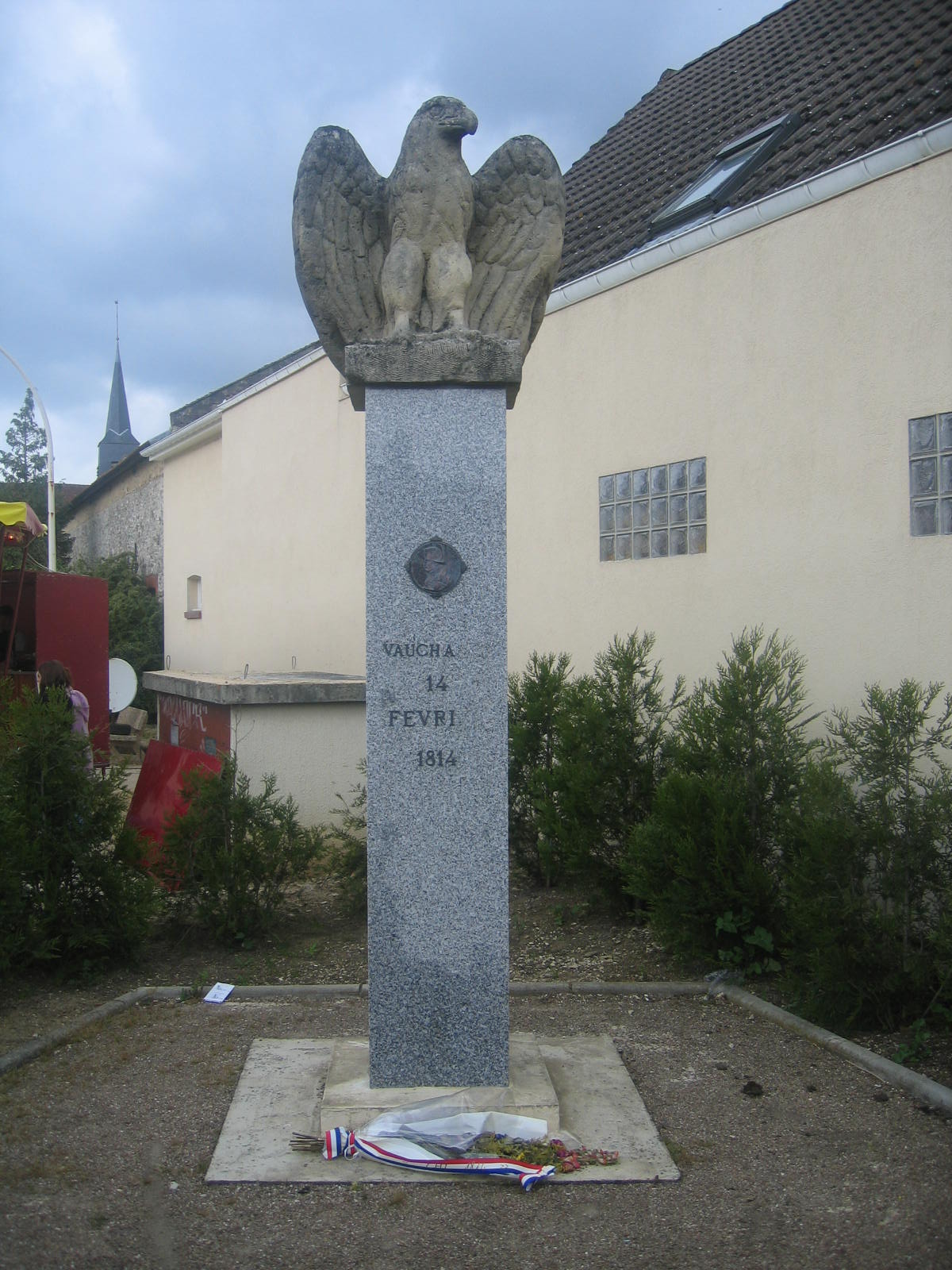 This is a picture of the memorial column of Napoleon victories in Vauchamps (Marne). The column is located in Vauchamps (Marne). Taken on june 4th 2006, by Thibault Taillandier. All right released.